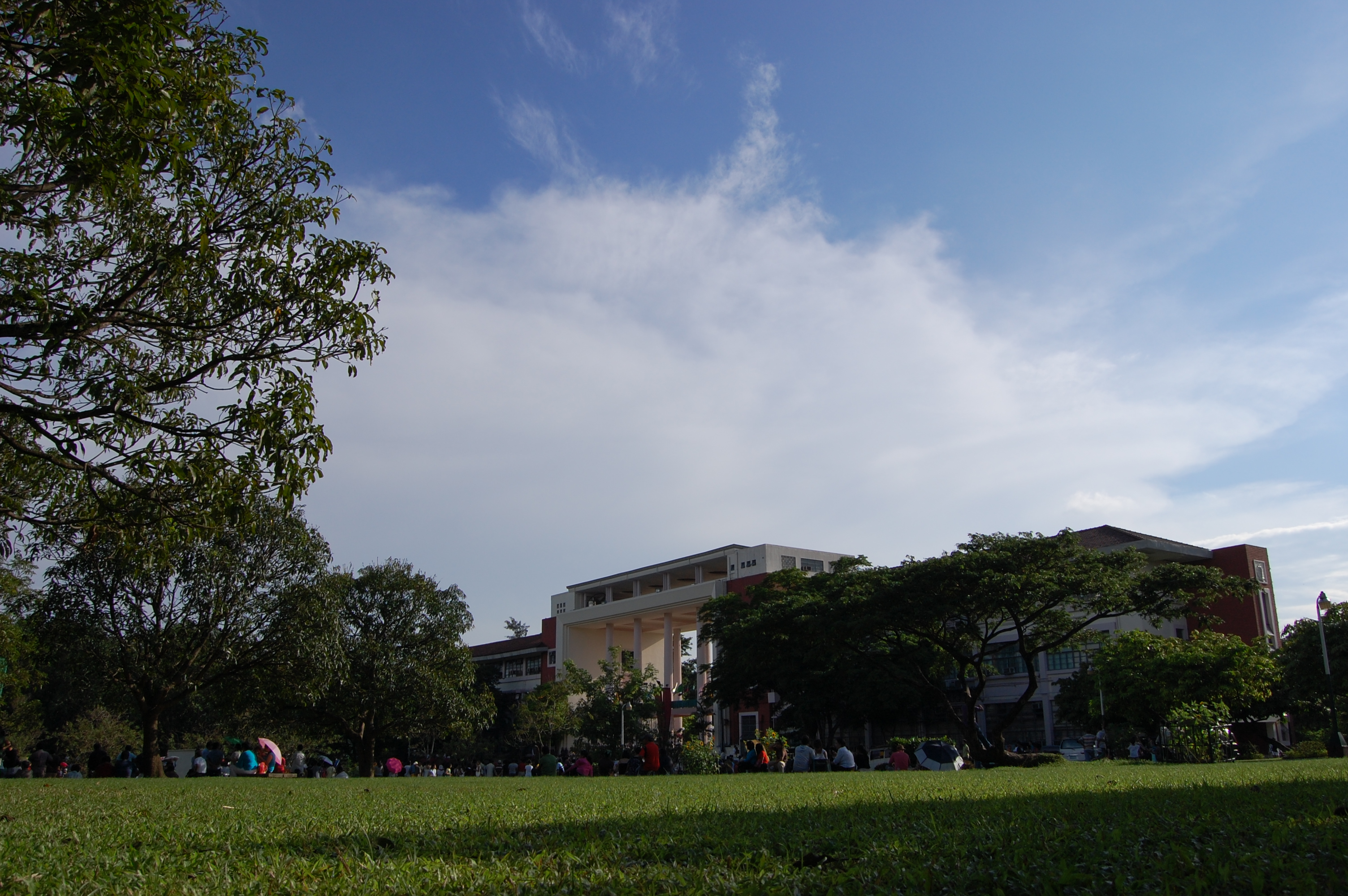 Quezon Hall of University of the Philippines